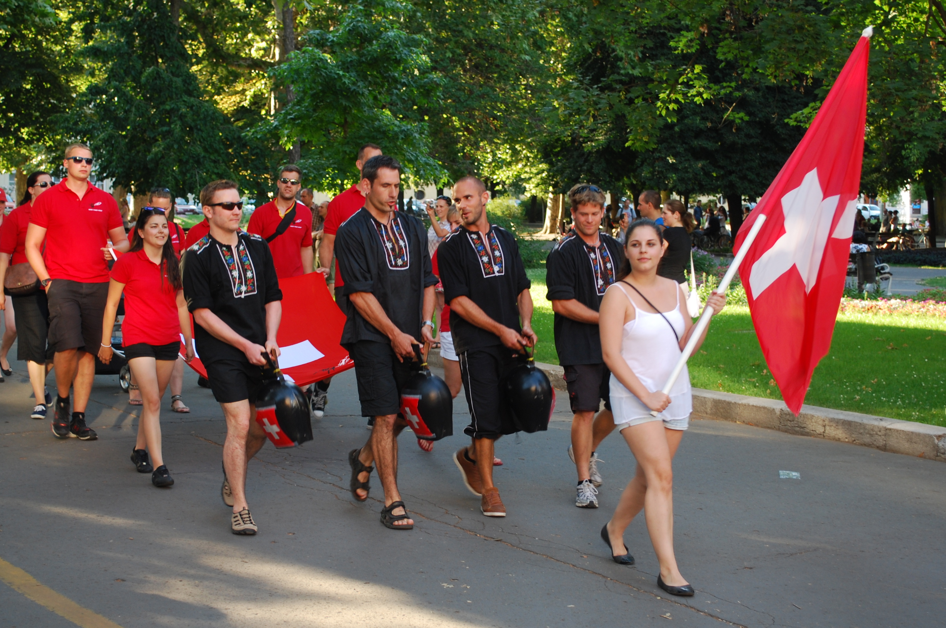 (IDBF World Dragon Boat Racing Championships 2013 in Szeged, Hungary. Swiss national team on the opening ceremony parade.)